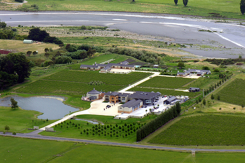 Craggy Range Winery.